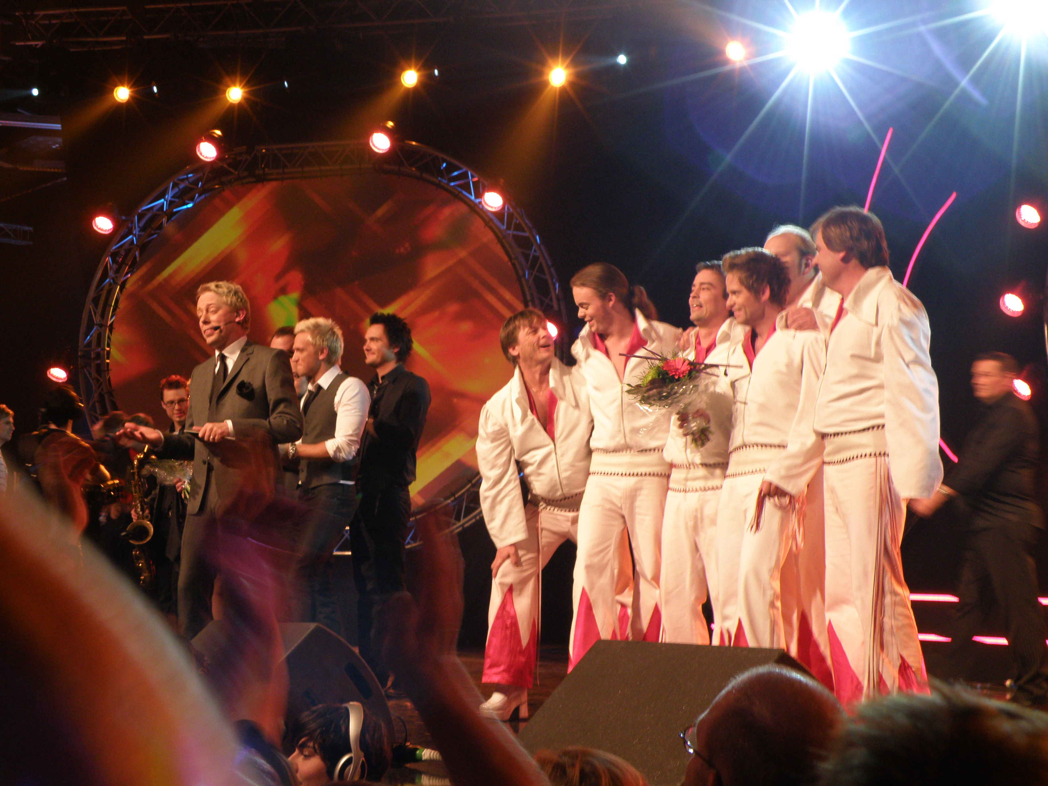 Dansbandskampen